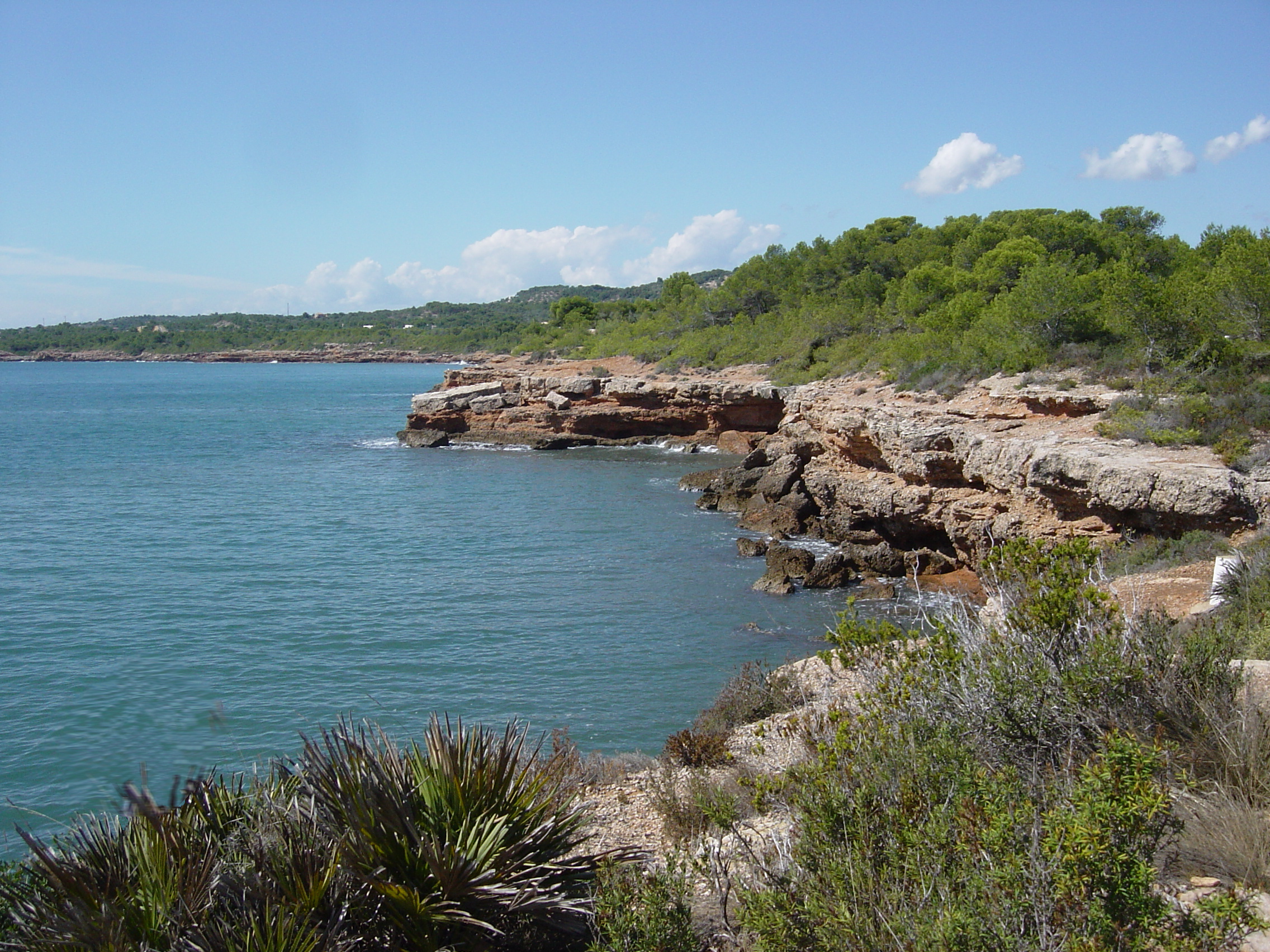 GR-92. The Mediterranean coast between l'Ametlla de Mar and l'Ampolla.